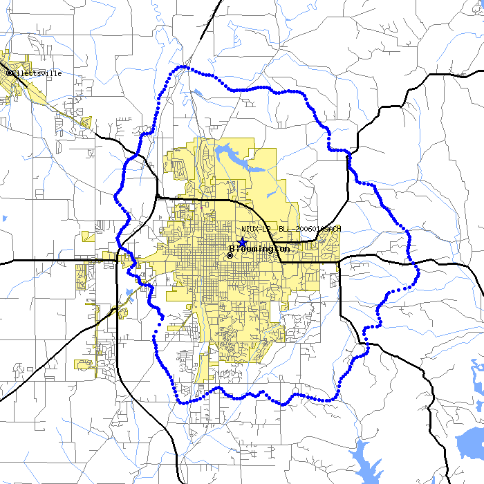 WIUX Service Area Contour Map (source: FCC) Low Power FM station Bloomington, Indiana